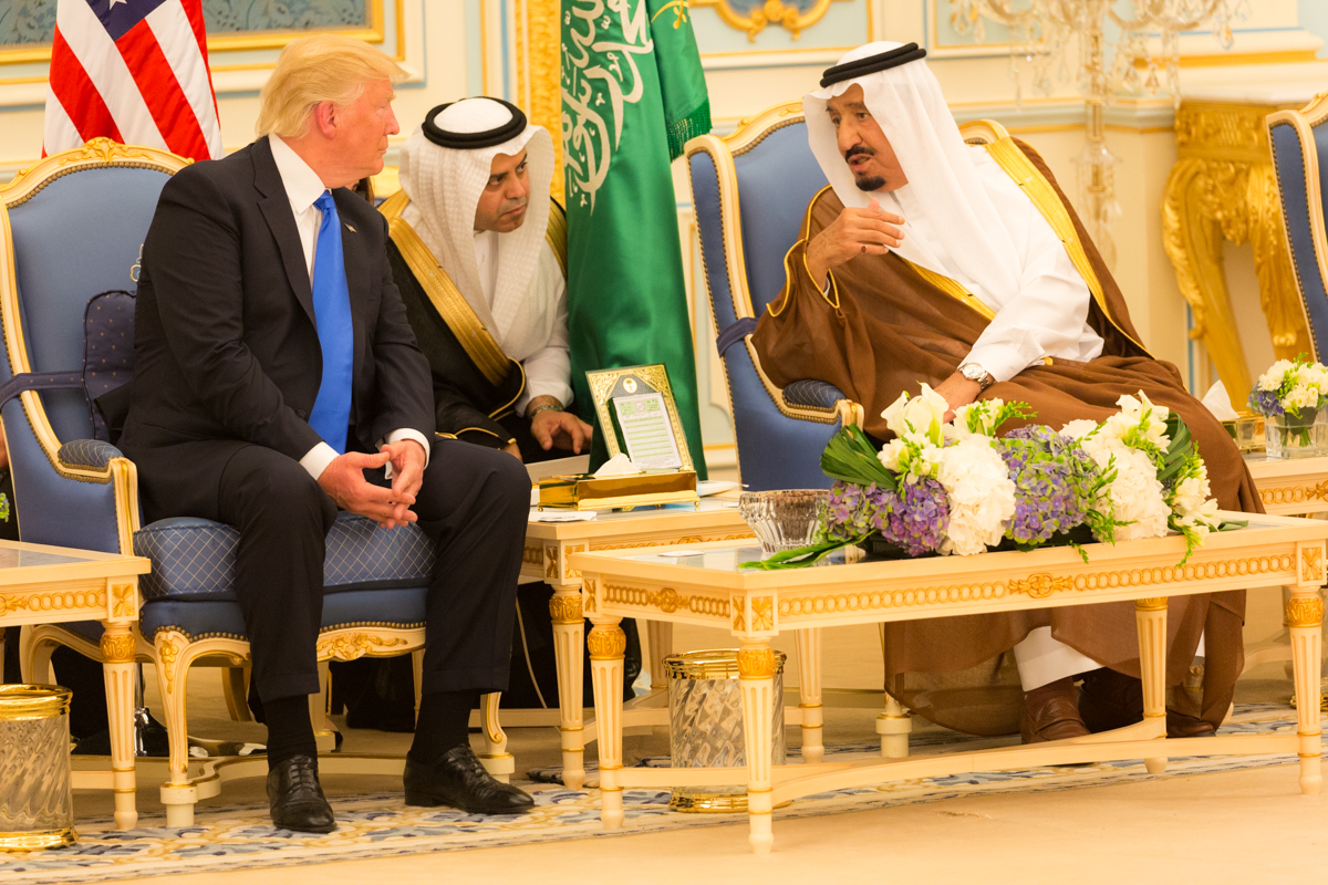 President Donald Trump and King Salman bin Abdulaziz Al Saud of Saudi Arabia talk together during ceremonies, Saturday, May 20, 2017, at the Royal Court Palace in Riyadh, Saudi Arabia. (Official White House Photo Shealah Craighead)